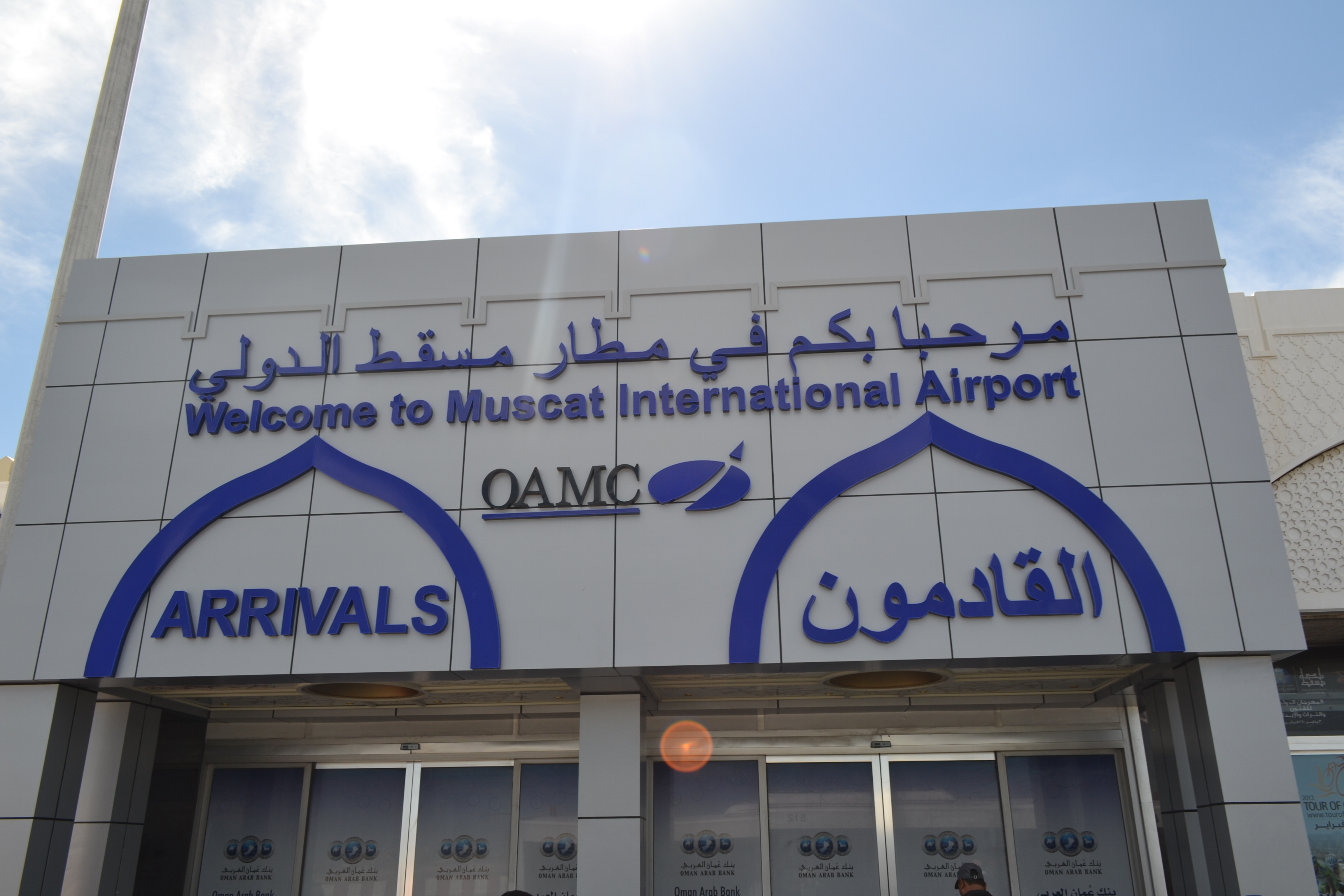 Arrival Gate